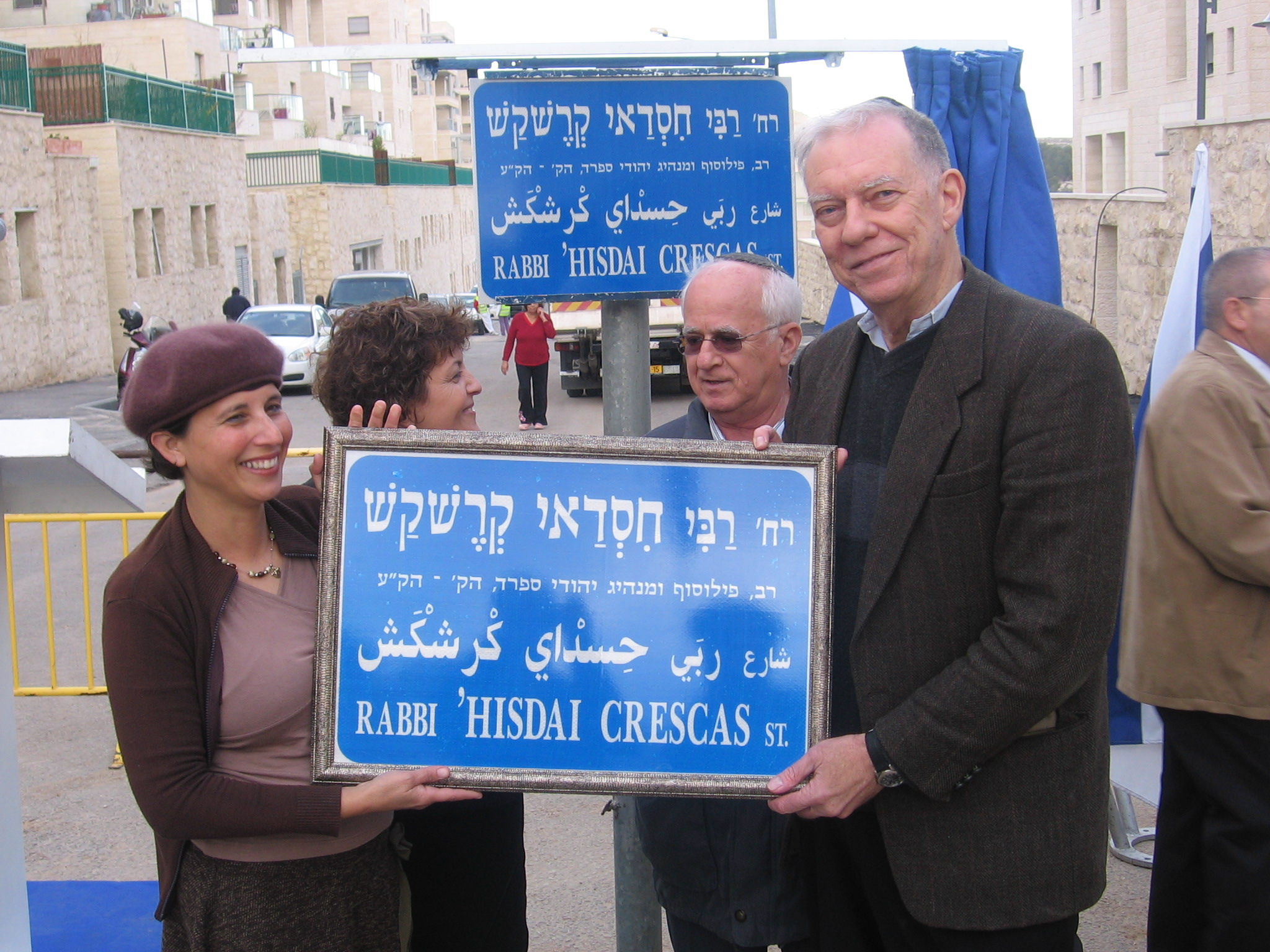 Ceremony of opening Hasdai Crescas in Jerusalem. Front row, from left to right: Dr. Esti Eisenman, specialist in Crescas and initiator of street naming, Prof. Warren Harvey